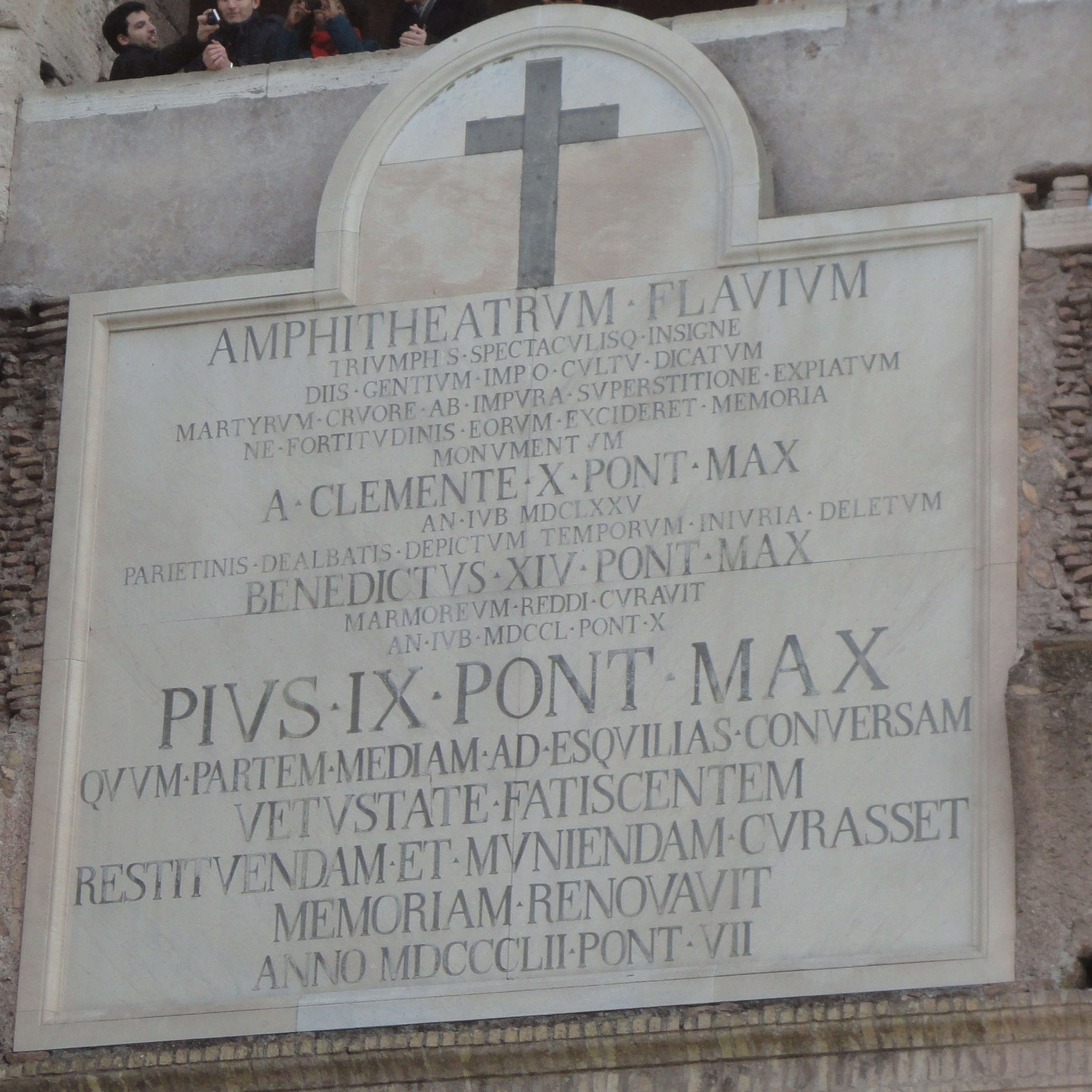 Colosseum BenedictXIV sign